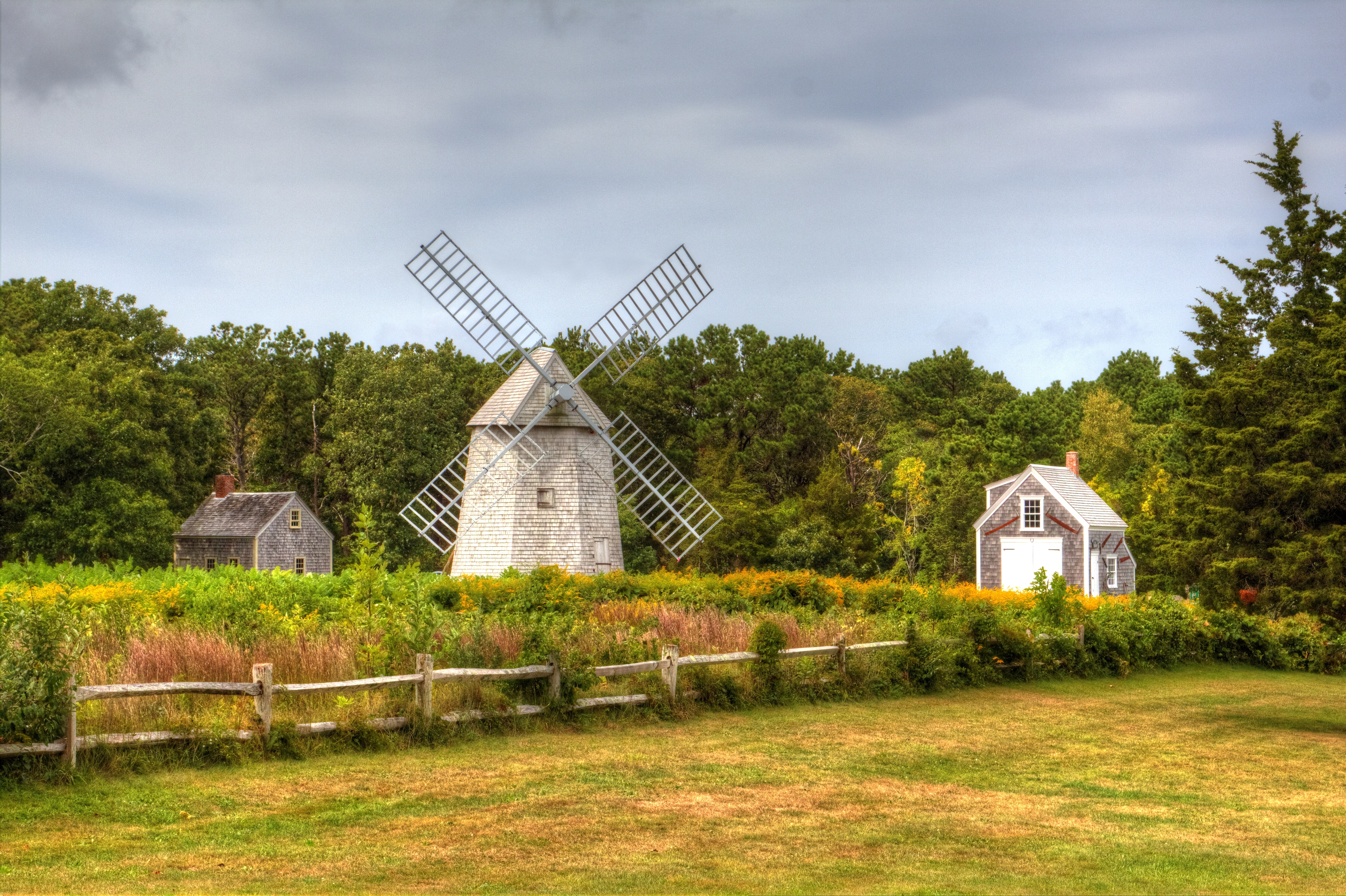 Photo taken September 9, 2014, in RAW format, tone-mapped with Photomatrix Pro